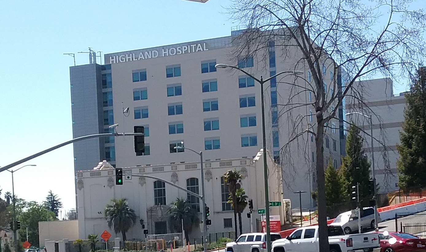 Highland Hospital, at Oakland California